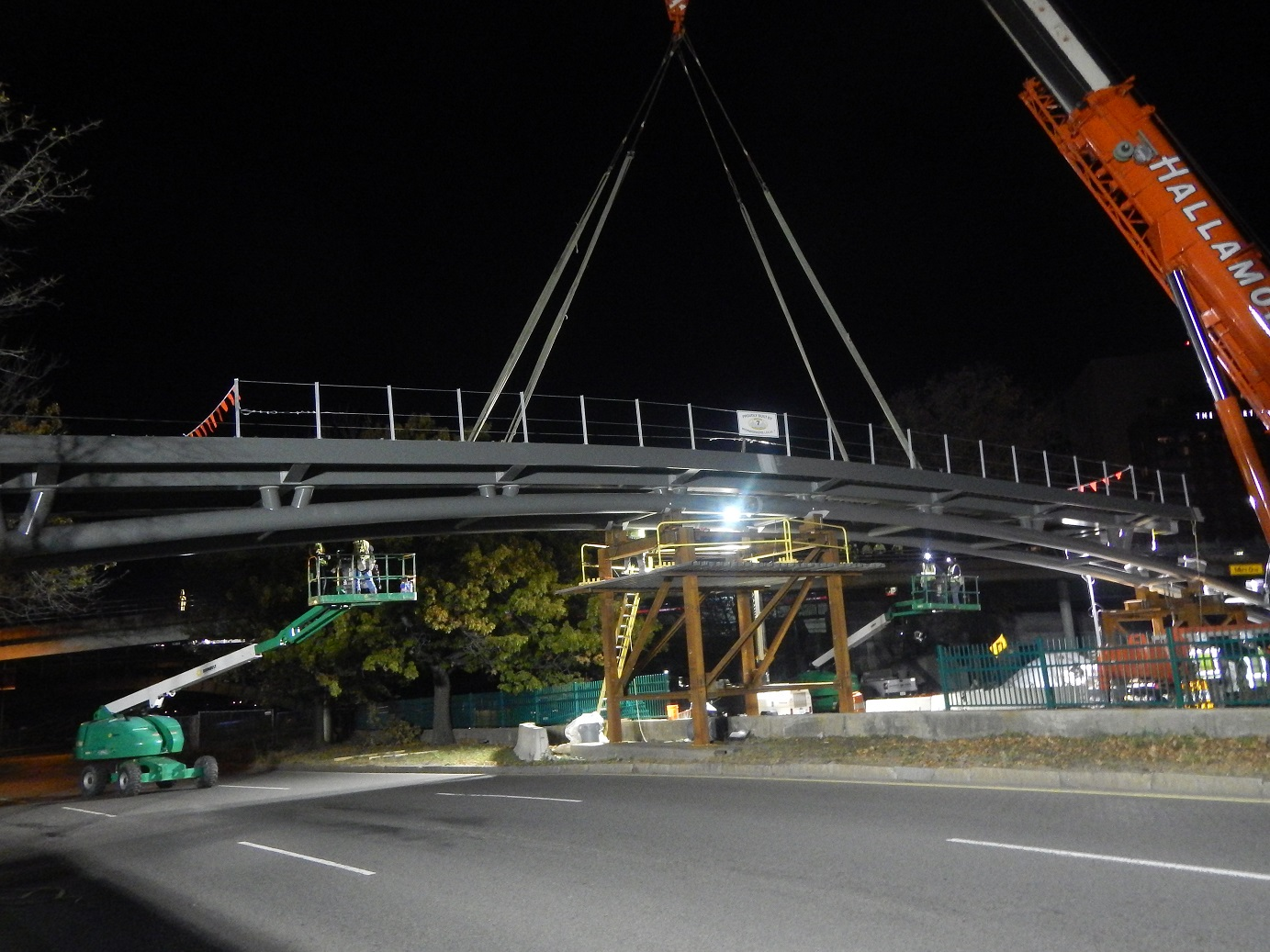 Appleton Pedestrian Bridge Installation, November, 2017